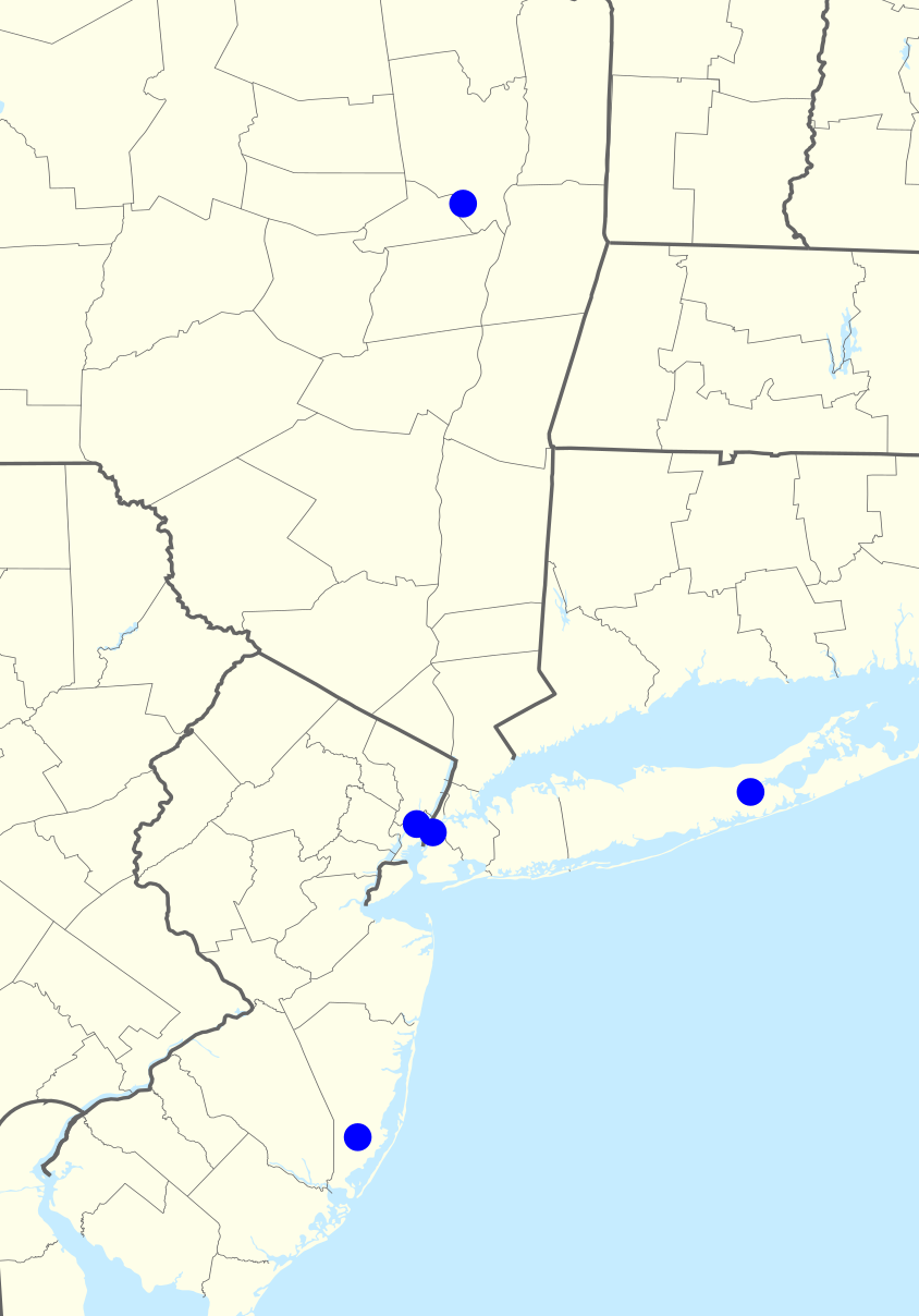 New York Jets Radio Network: map of radio affiliates.